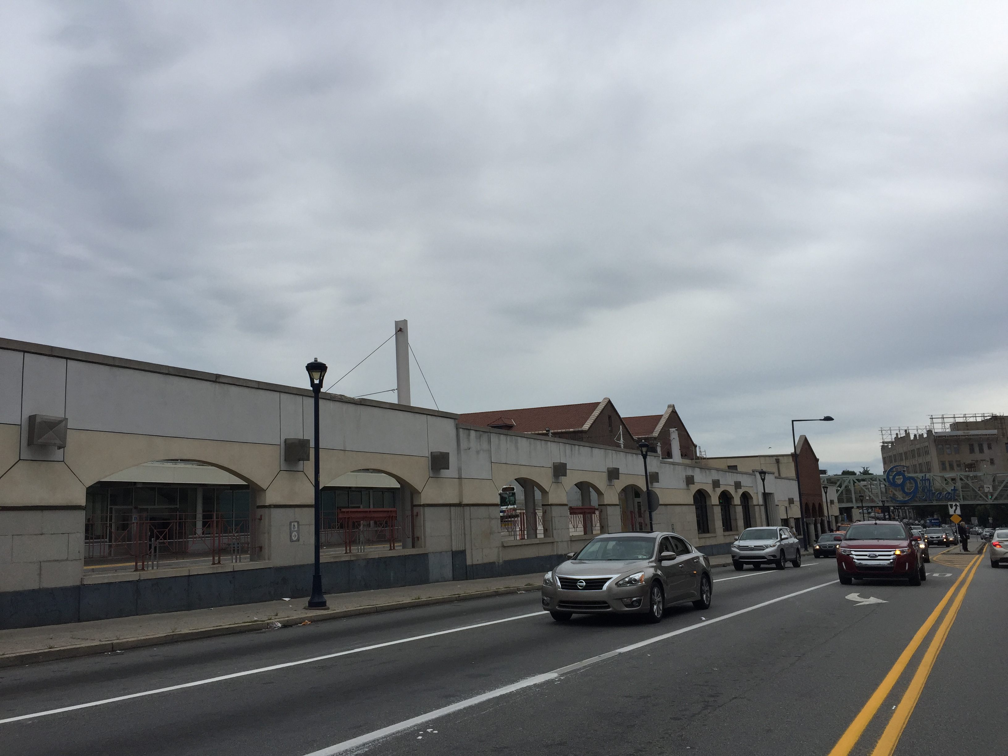 69th Street station